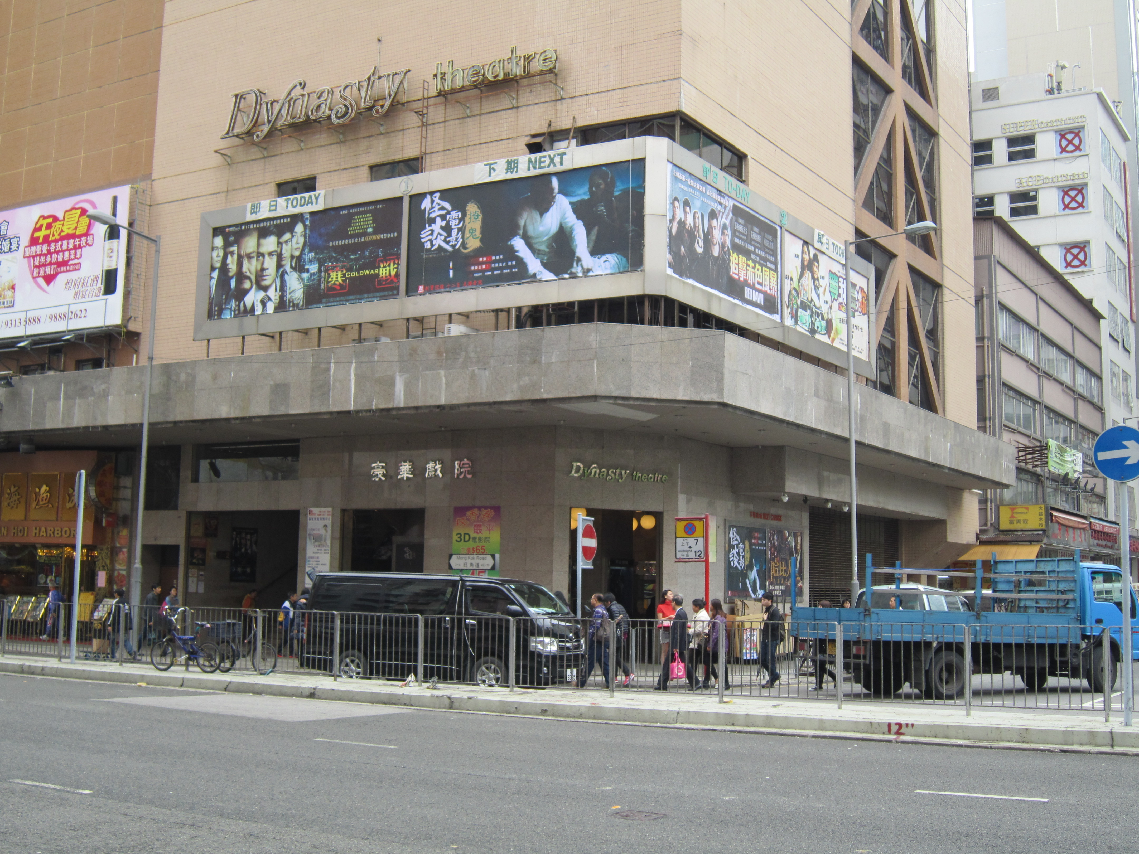 Dynasty Theatre EntranceCorner of Mong Kok Road and Canton Road 新寶院線